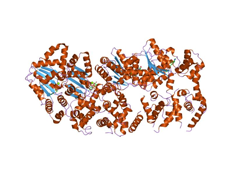 Cartoon representation of the molecular structure of protein registered with 2hcb code.